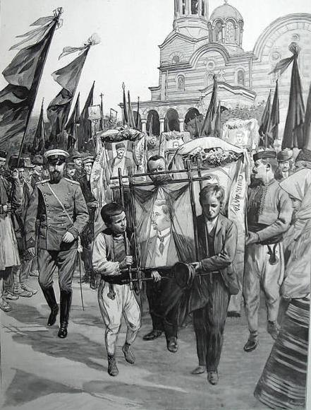 Macedono-bulgarian refugee demonstration in Sofia, Bulgaria after the crushing of Ilinden Uprising